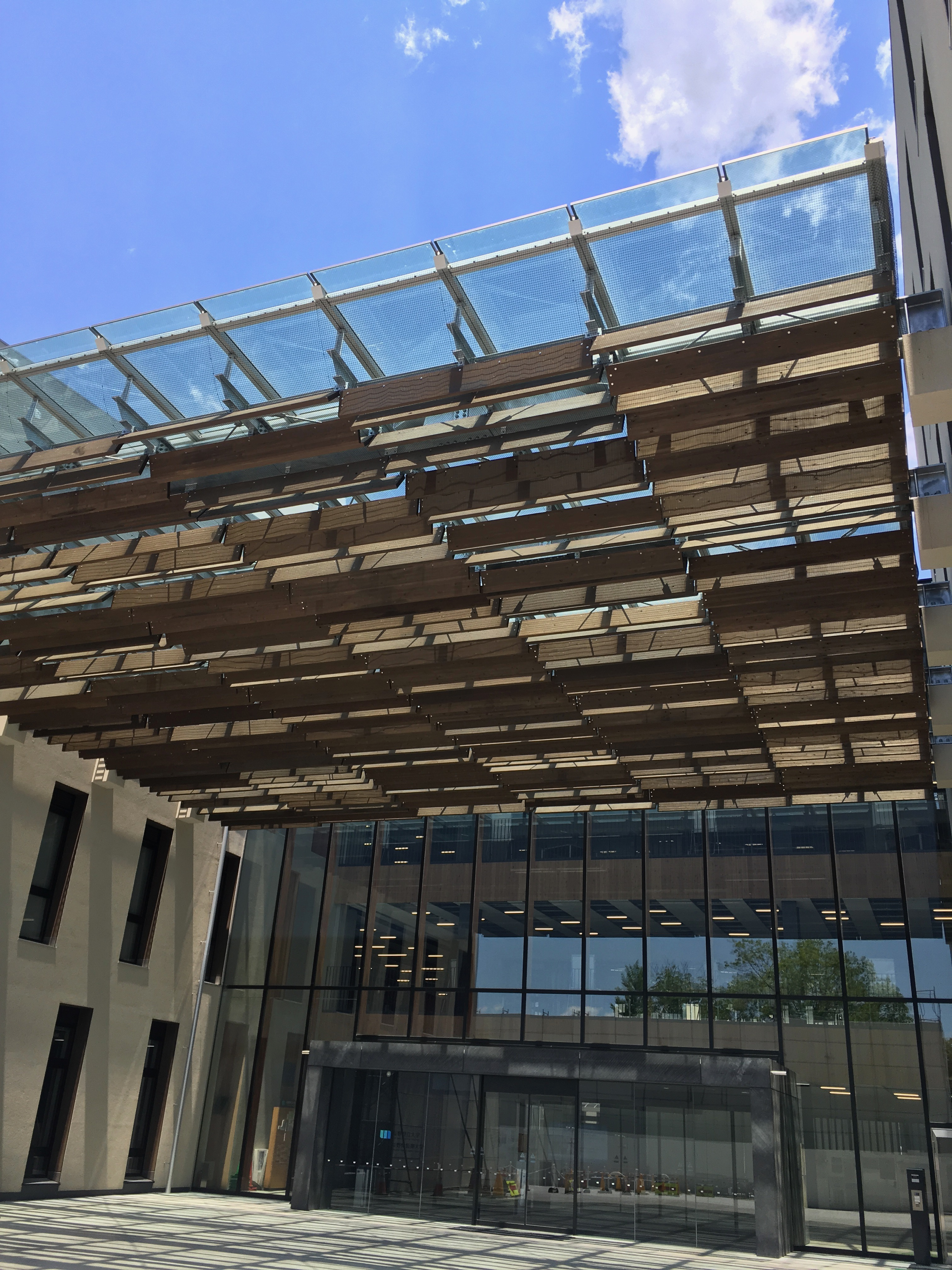 This is a photo of the main entrance of the University of Nagano, Miwa Campus.